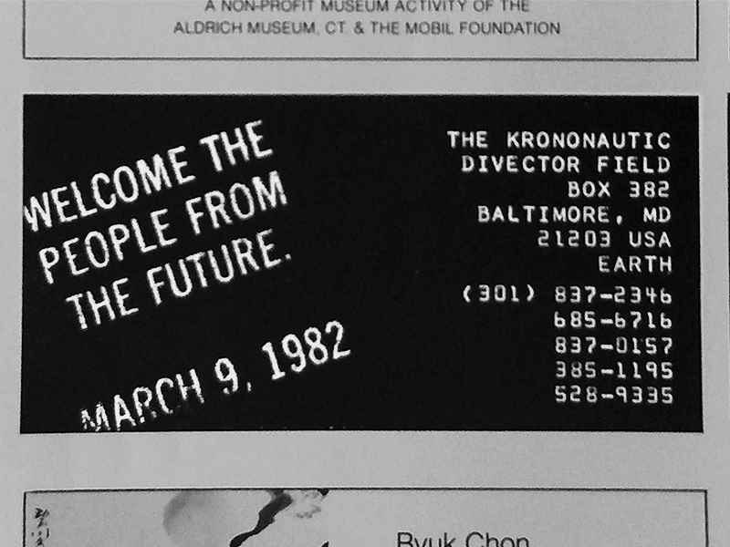 Welcome Krononauts -- ad in Artforum Magazine designed by RichardTE (January 1980) p. 90, inviting time travelers, or People from the Future(s), to Baltimore, Maryland two years later on March 9, 1982. Original graphic size: 4.5x2.25-in. See: Time Travel